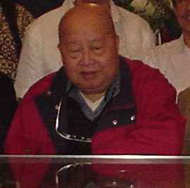 Filipino author F. Sionil Jose (front row, second from left) is one of the Philippines' most popular writers. He wrote a series of books based on the time of the American occupation of the Philippines, as well as the provocative novel Ermita, named after Manila's notorious red-light district.